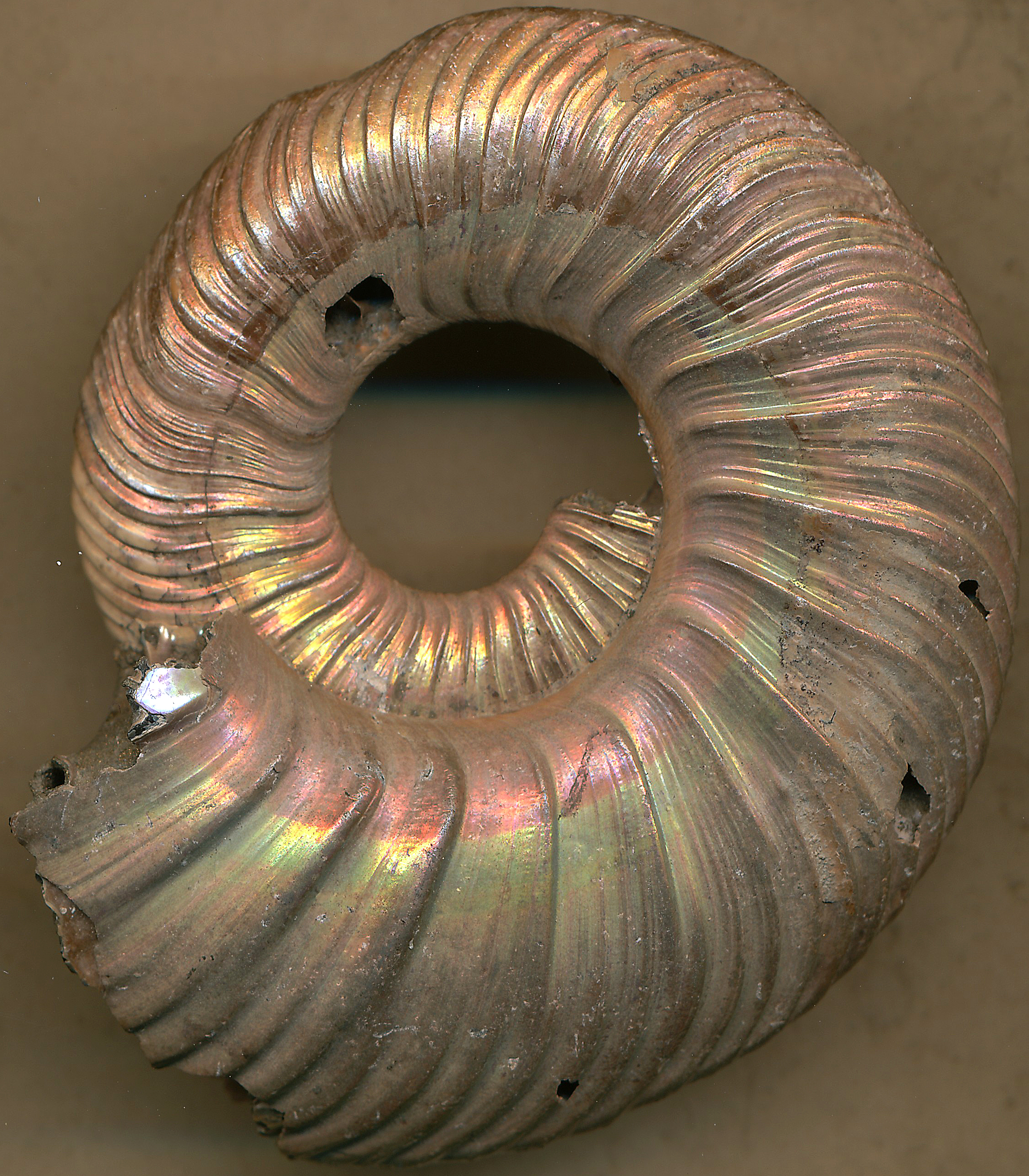 Quenstedtoceras from Saratov (Jurassic) showing typical reflections of light due to the micrstructure of the preserved nacre layer.